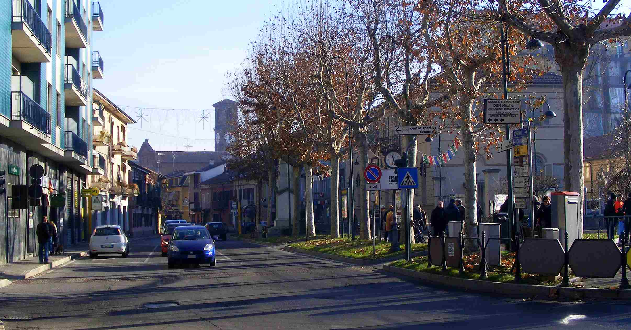 Brandizzo (TO, Italy): Torino street